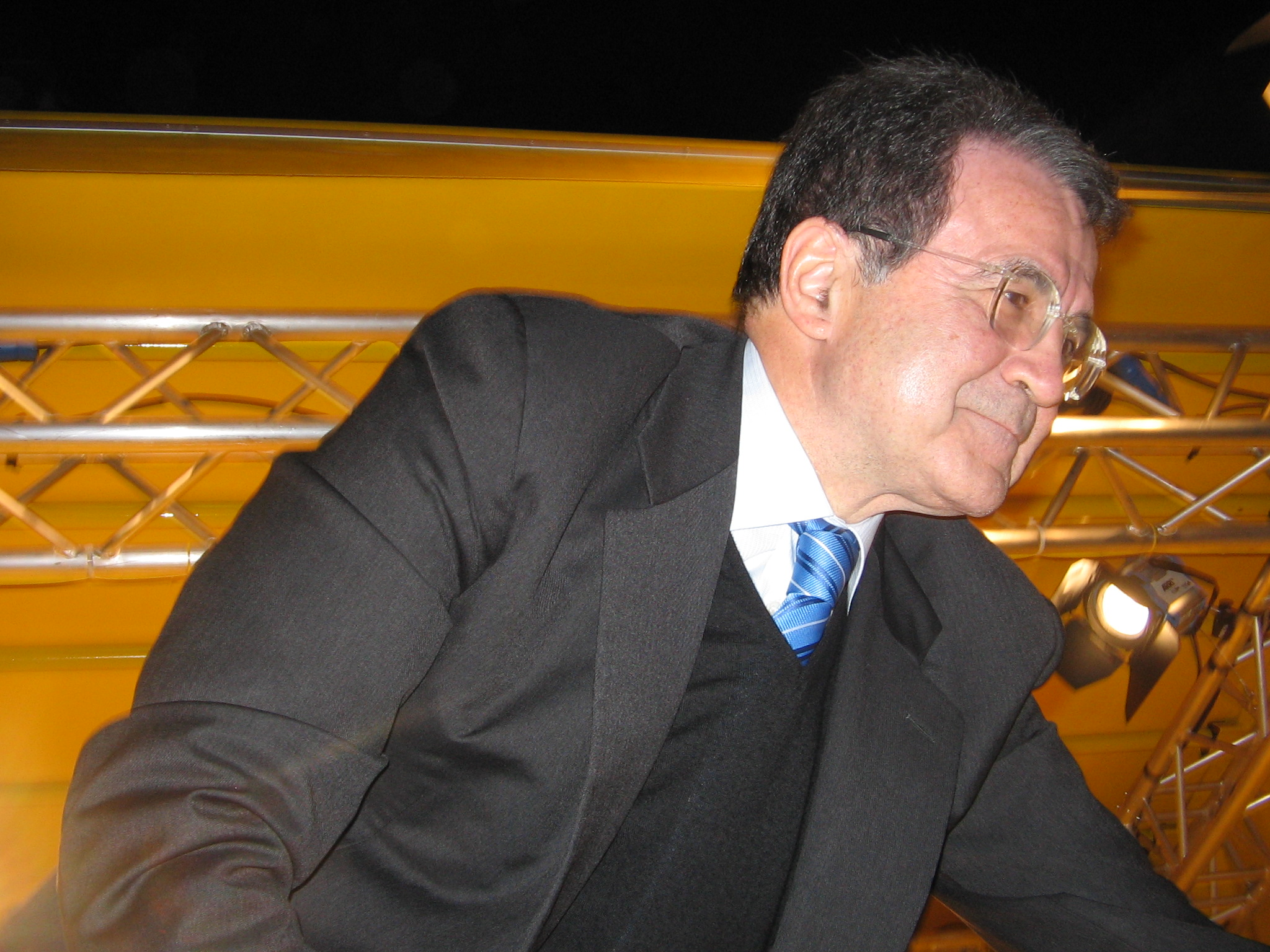 Photo by Beppe Moro